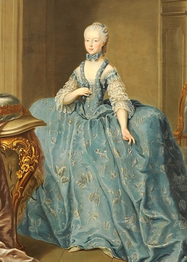 Johanna Gabriele of Habsburg Lorraine